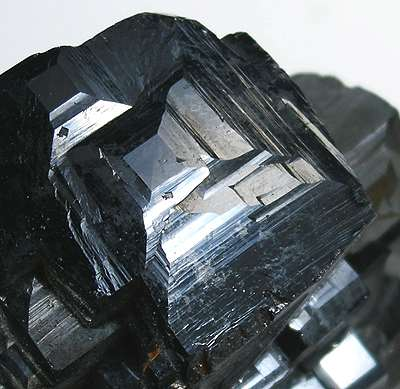 Magnetite Locality: ZCA Mine No. 4 (St Joe Mine; ZCA No. 4 mine), Balmat, Balmat-Edwards Zinc District, St Lawrence County, New York, USA (Locality at ) Size: small cabinet, 5.8 x 5.5 x 3.9 cm Magnetite This is a stunning rock, of ANY species. But it just happens to be a magnetite, and I think a world class one, at that. This is an elegant magnetite from this important, briefly collected locality, with sharp, lustrous, jet black crystals to 3.5 cm , though most are a bit smaller. These magnetites to me are best of species - I know some will disagree, choosing instead the sharp Swiss octohedra. But, for me, i like the metallic, jet black, complex cubic intricacy of these NY Magnetites better - and the specimens are larger and more pretty, overall, too. This is a major classic, not just a rarity; but more than that it is just something really different for a common species normally relegated to the drawers and not to display in a showcase. I have seen a number of these, as I was around when they were coming out in the 1980s, and this remains for my taste one of the few finest I know of. It was in the John Barlow Collection, which was sold in 1998. Despite all the more expensive things, rare and common both in that collection, I still think this was an underappreciated and important specimen. It retains John's plastic label used for the few specimens in one of his competition exhibit cases, so out of his 6000 specimens he felt pretty good about it, too. I bought and sold it at that time, in the late 1990s, and was thrilled to be able to exchange it back from an overseas collector recently.